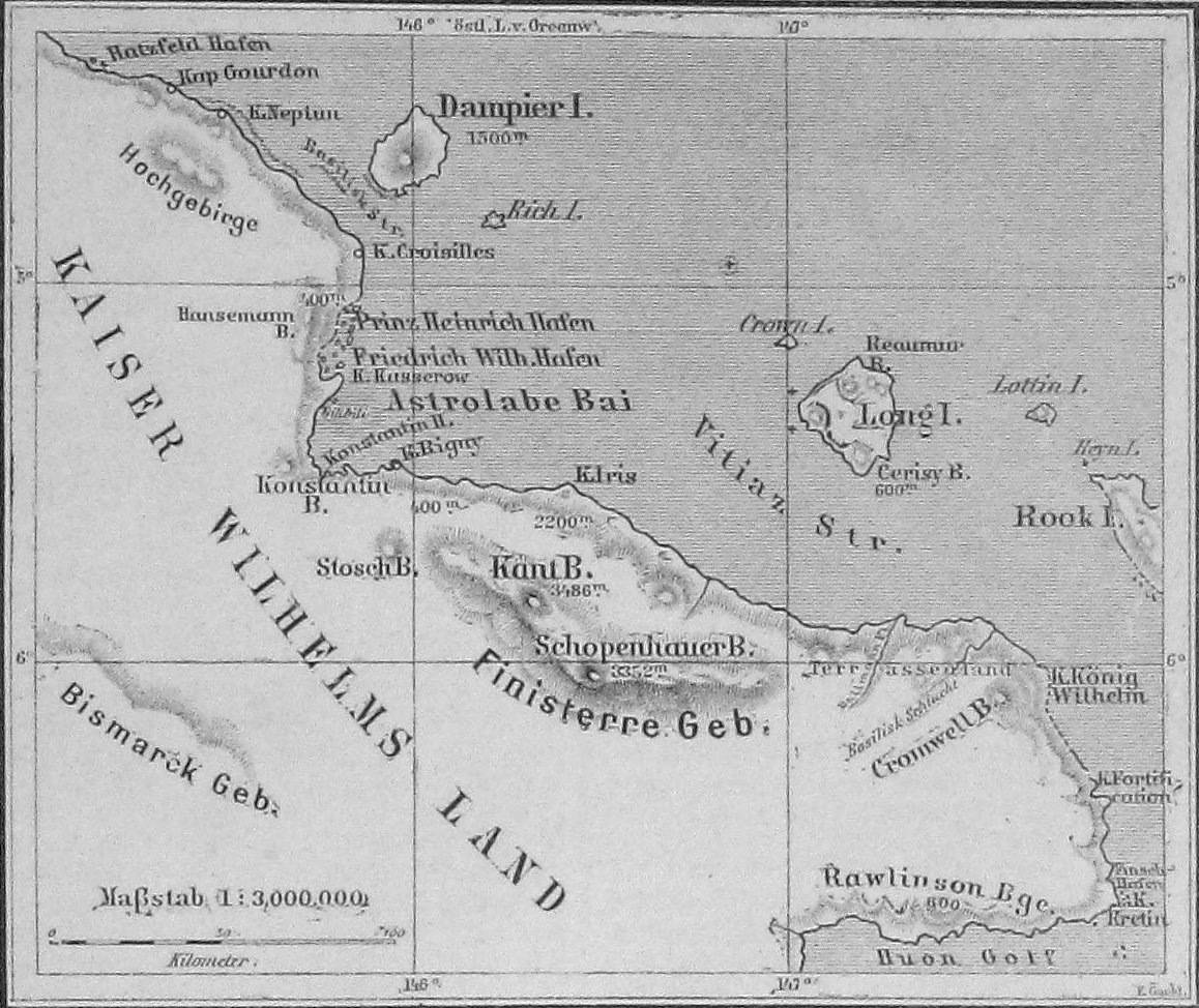 Image from page 111 of journal Die Gartenlaube, 1886.